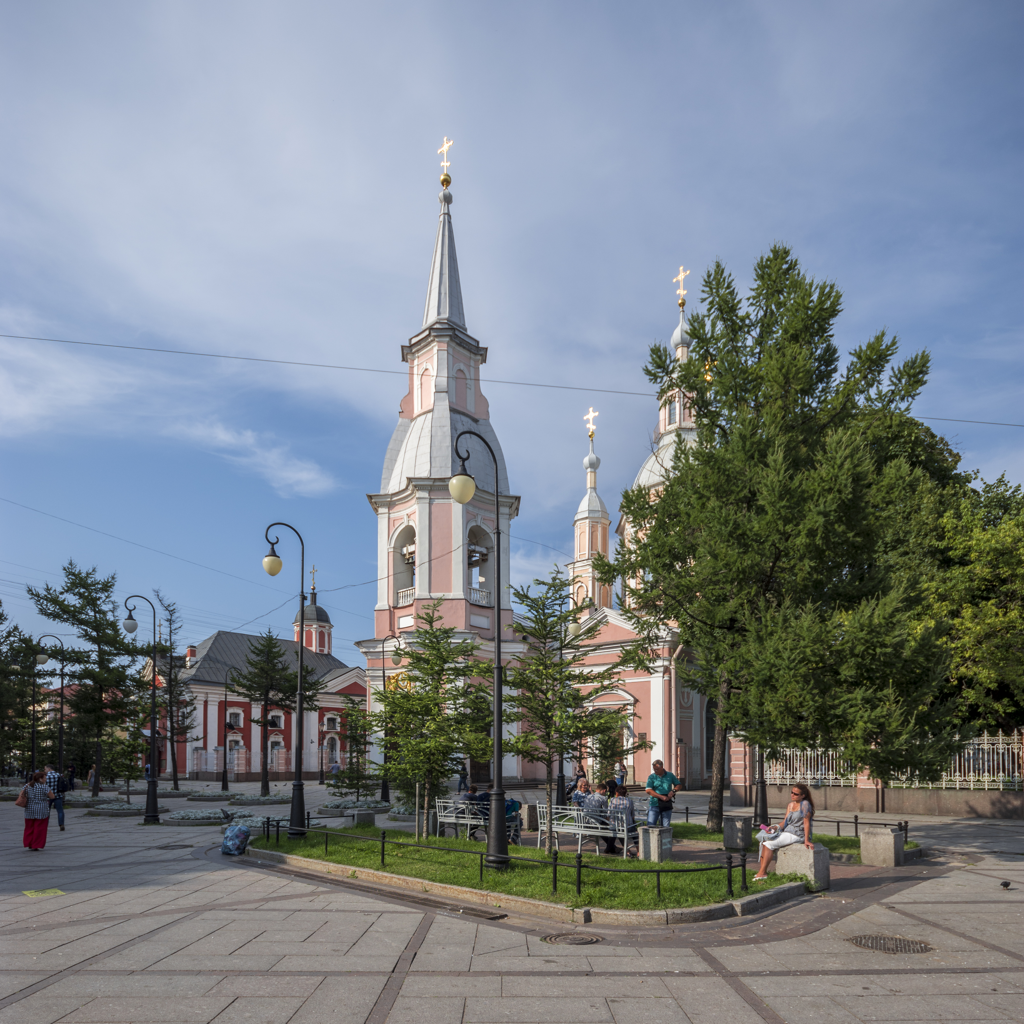 Andreevsky Cathedral in Saint Petersburg